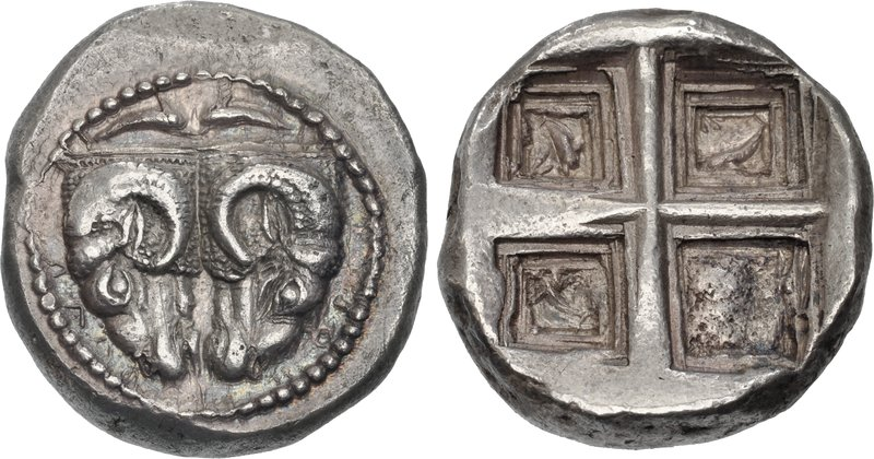 Phokis, Delphi. Circa 480-475 BC. AR Tridrachm (25mm, 18.31 g). DAΛΦΙΚΟИ. Two drinking vessels (rhyton) in the form of rams heads; above them, two dolphins swimming toward each other; around, border of dots Quadripartite incuse square in the form of a coffered ceiling; each coffer decorated with a dolphin and a spray of laurel leaves.